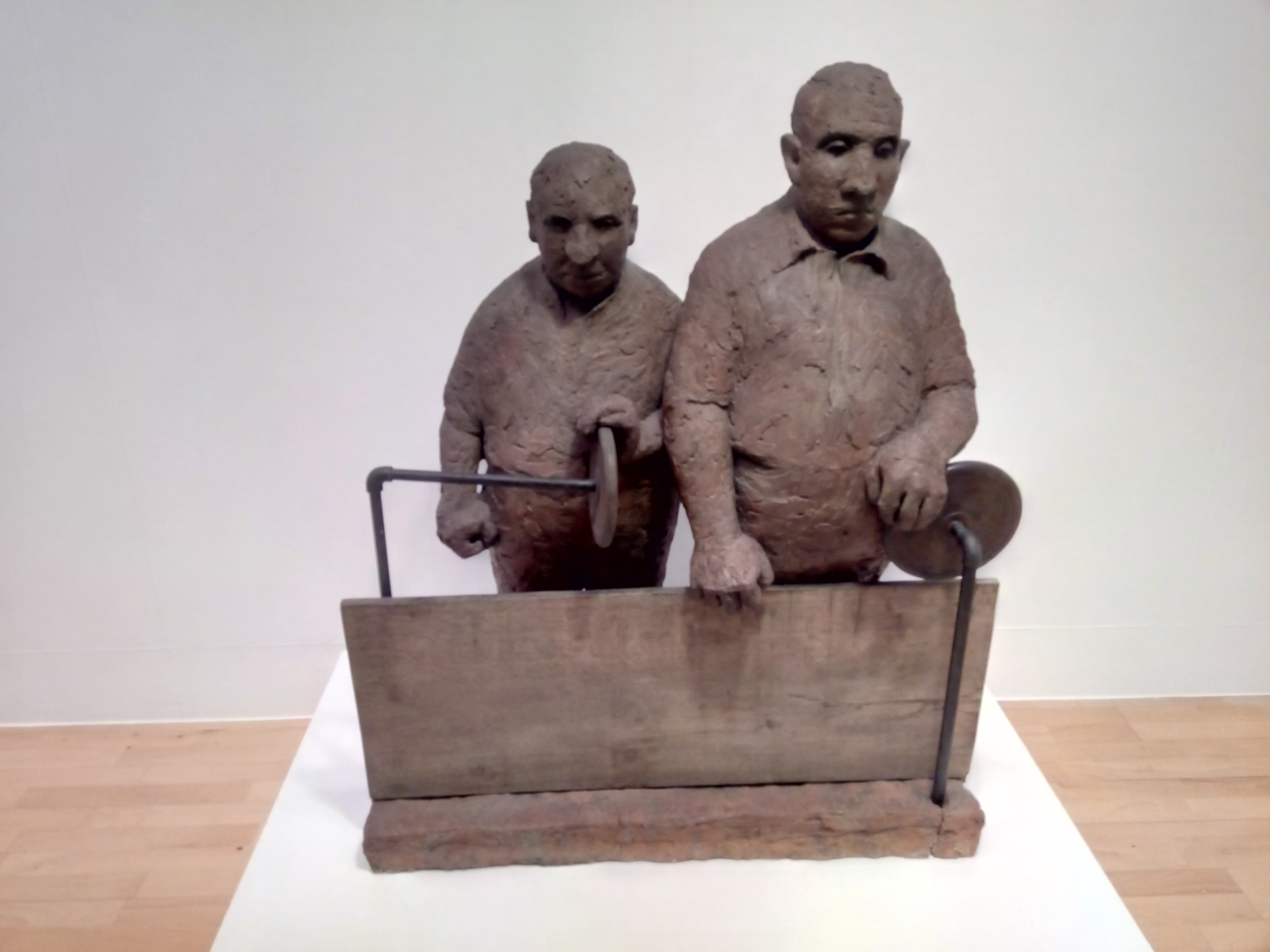 The Machine Minders by Ghisha Koenig 1956 is exhibited at the The Tate in Liverpool